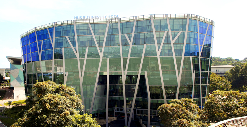 Mochtar Riady Building